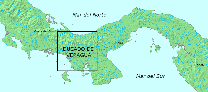 Map of the Duchy of Veragua (1537–1560)